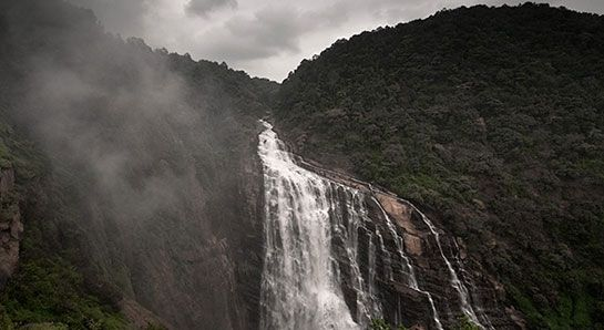 falls near siddapur